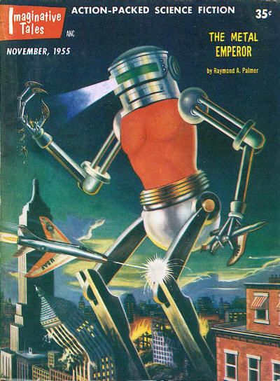 Cover of Imaginative Tales, November 1955